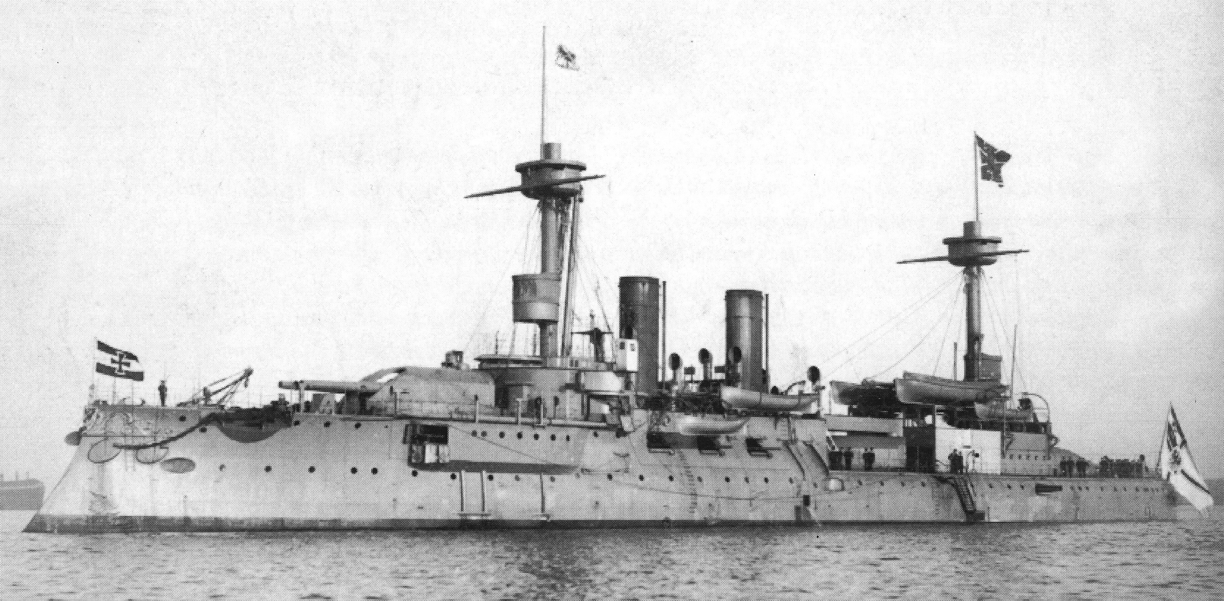 The German battleship SMS Brandenburg in 1893.